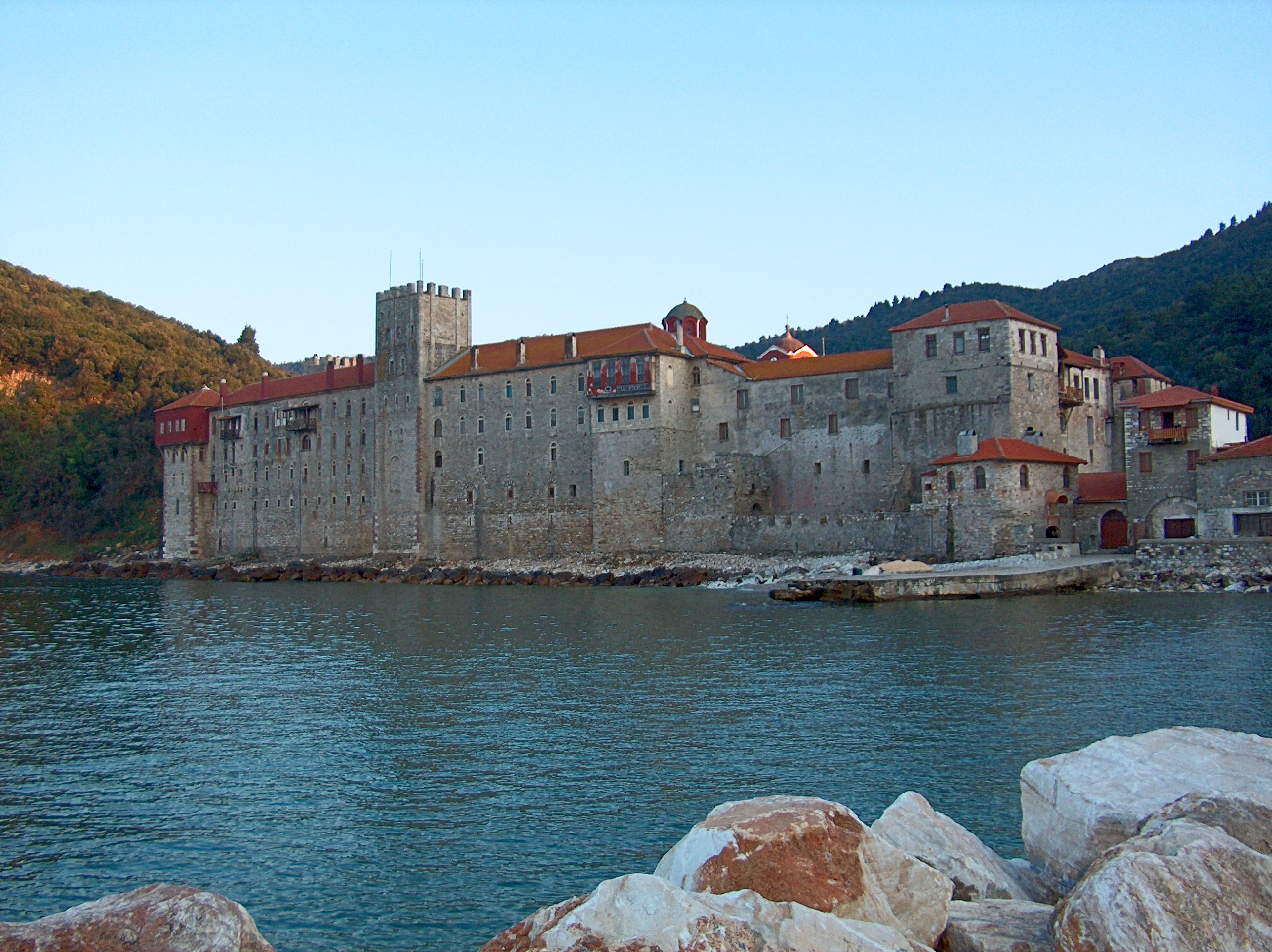 View of Esphigmenou monastery in Mount Athos (April 2006).